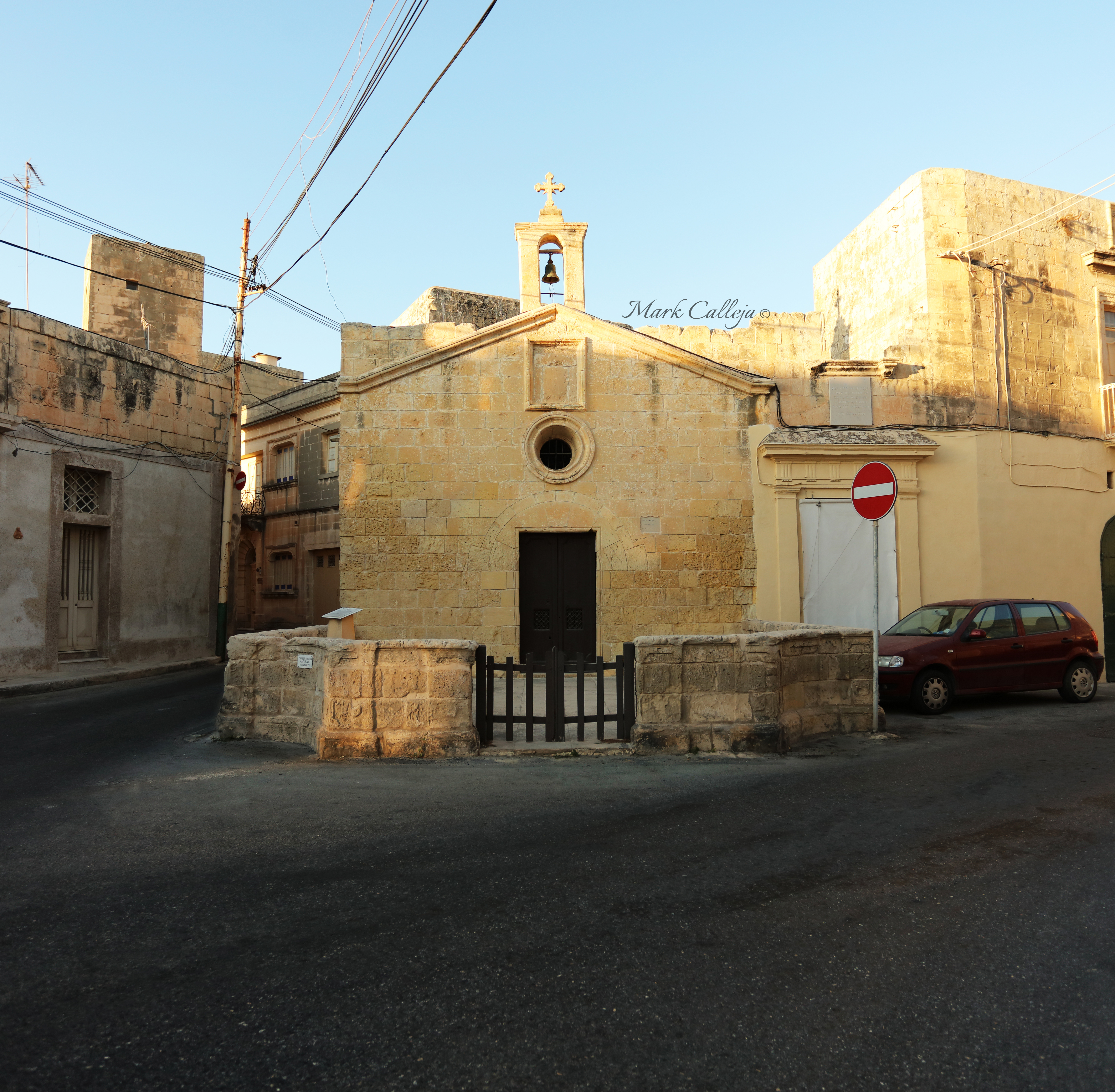 Chapel Of Saint Roque This media is about Maltese cultural property with inventory number 02208.